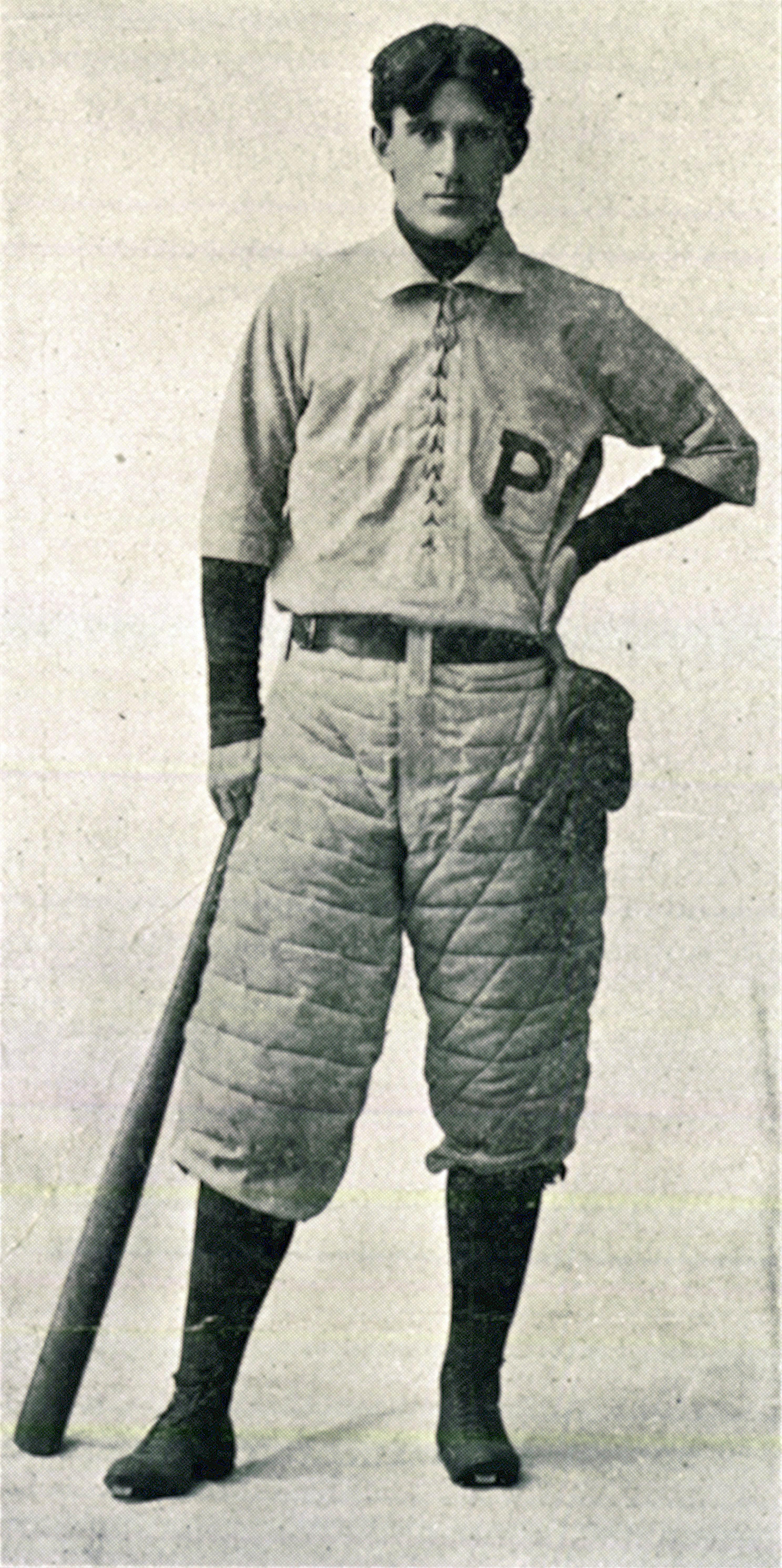 The author Zane Gray was a member of Penn's varsity baseball team in 1895 and 1896